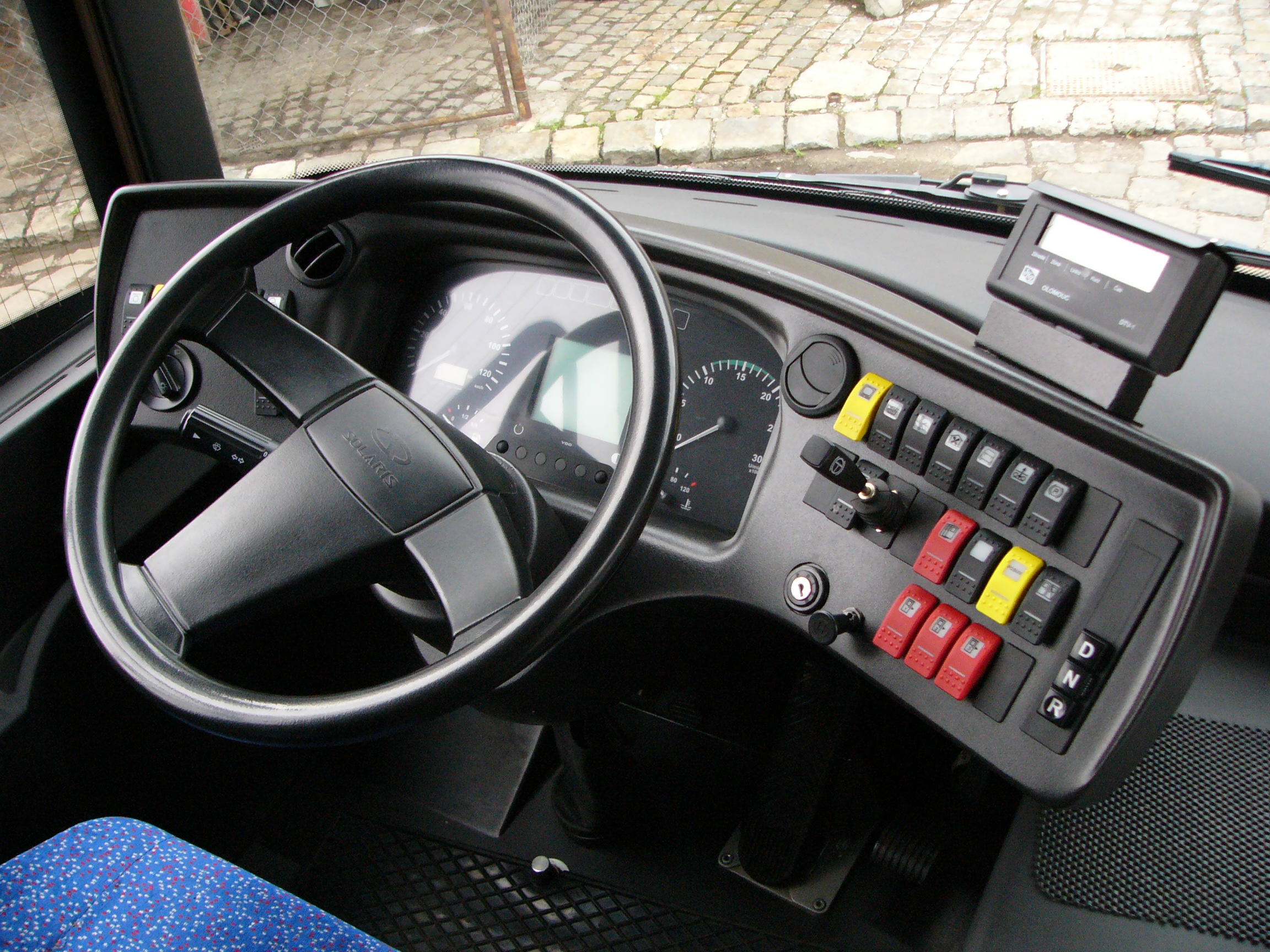 Cockpit of bus Solaris Urbino 12 (#627). Year built 2008, DP Olomouc operator. Photo taken in Olomouc, Czech Republic.